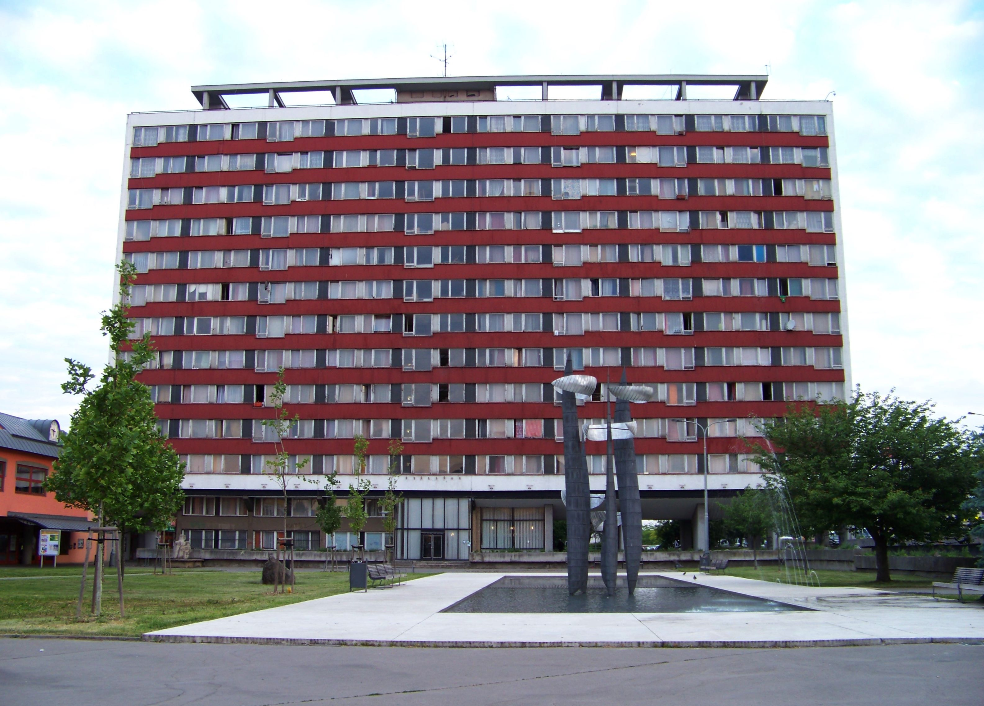 Prague-Lhotka, the Czech Republic. Novodvorská Housing Estate.